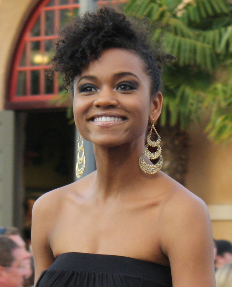 Syesha Marcado, finalist on American Idol.